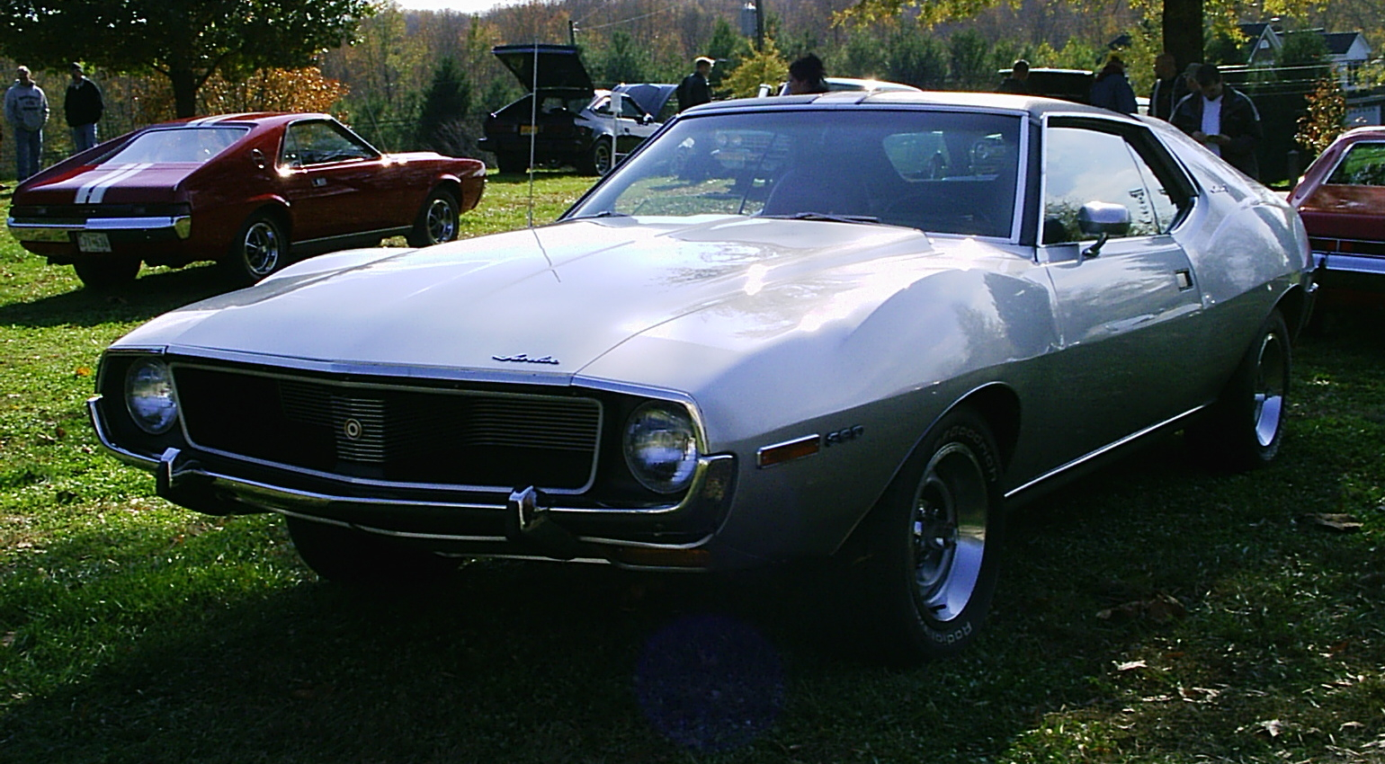 1971 Javelin SST coupe - front view - built by American Motors Corporation (AMC). A pony car equipped with AMC's 360 CID (5.9 L) V8 engine, in factory original condition.